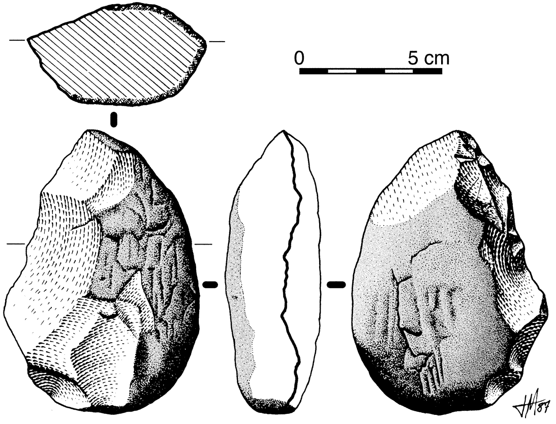 Acheulean hand axe with back that proceeds from a superficial site in the Salamanca province (Spain), in the valley Huebra river, tributary of Douro river.